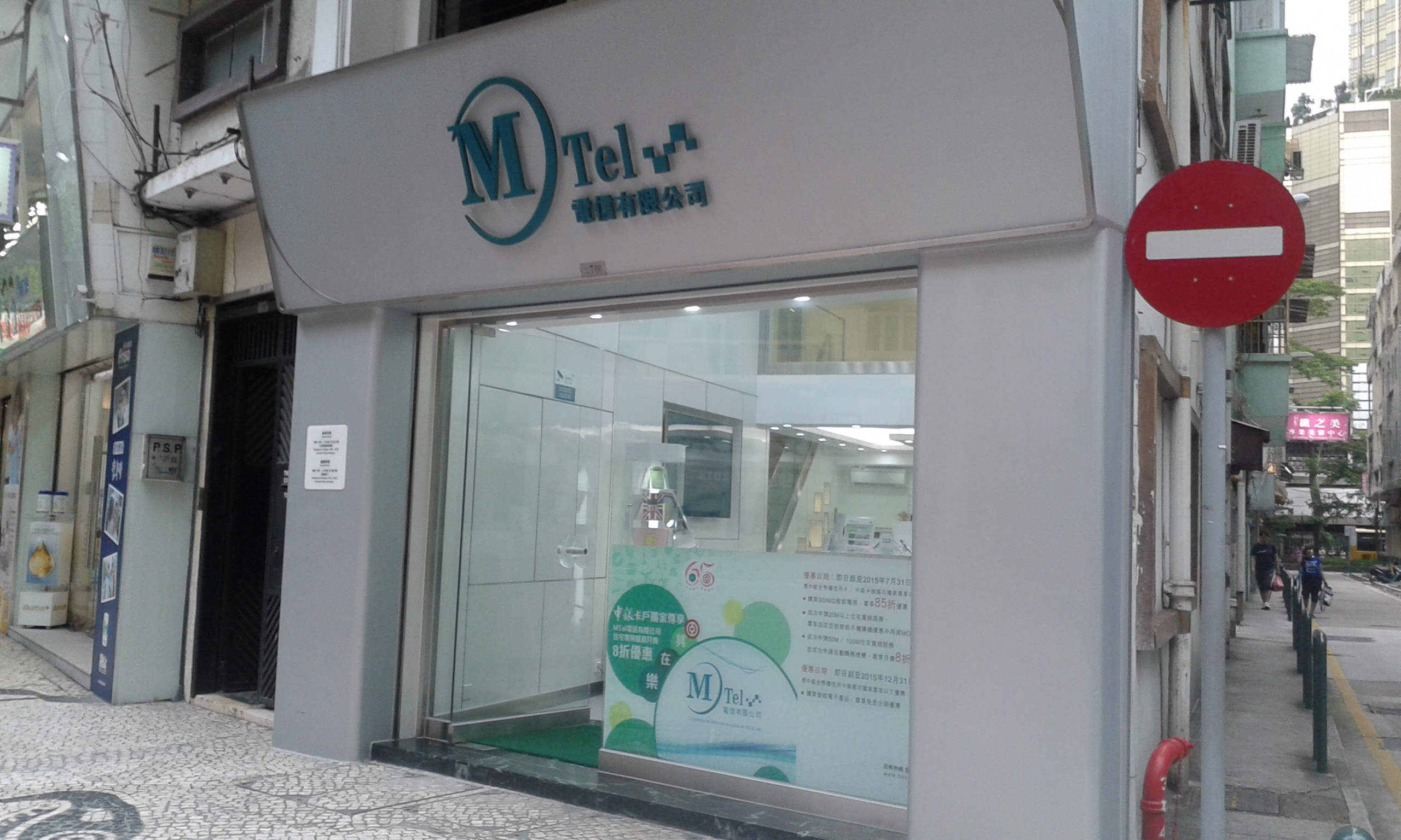 MTel Store